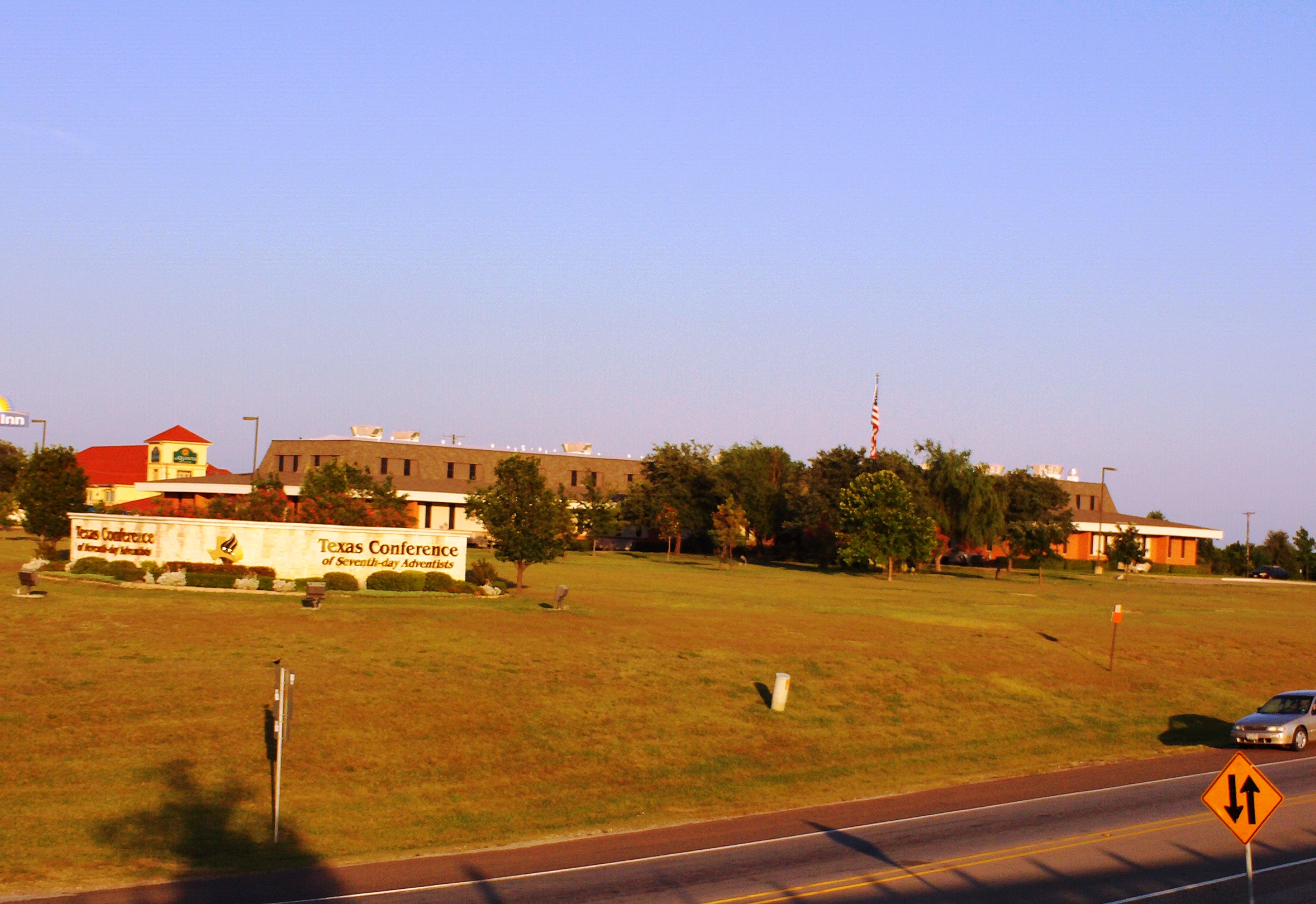 Headquarters building of the Texas Conference of Seventh-day Adventists in Alvarado, Texas.